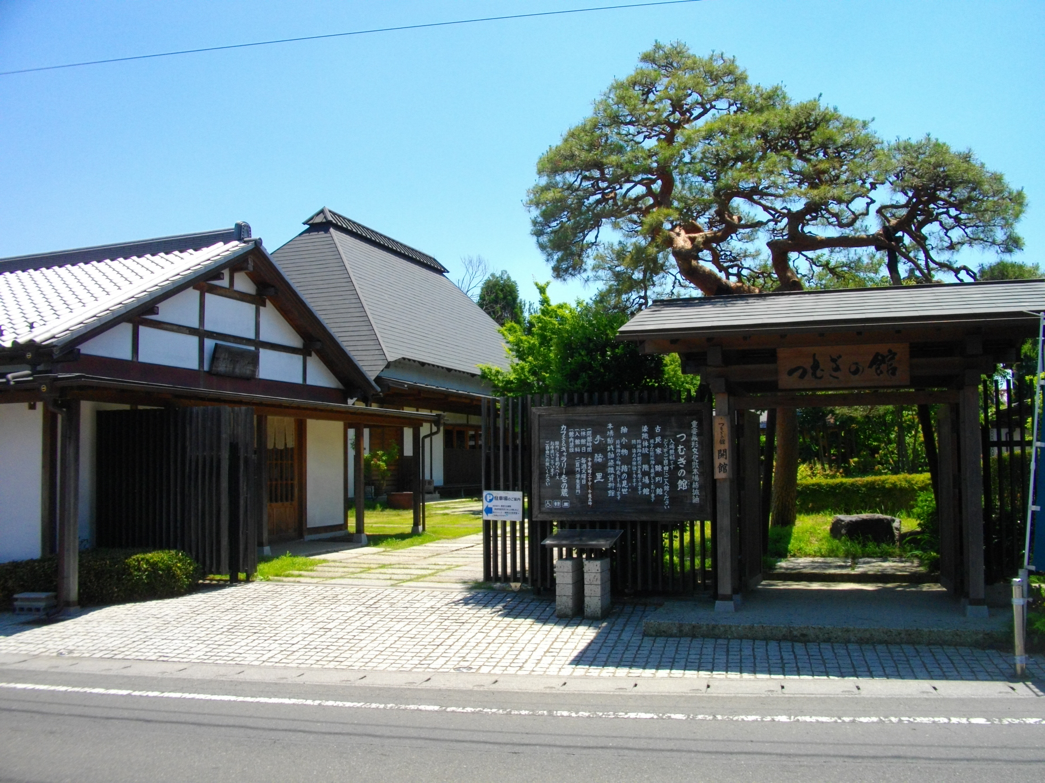 Tsumugi no Yakata